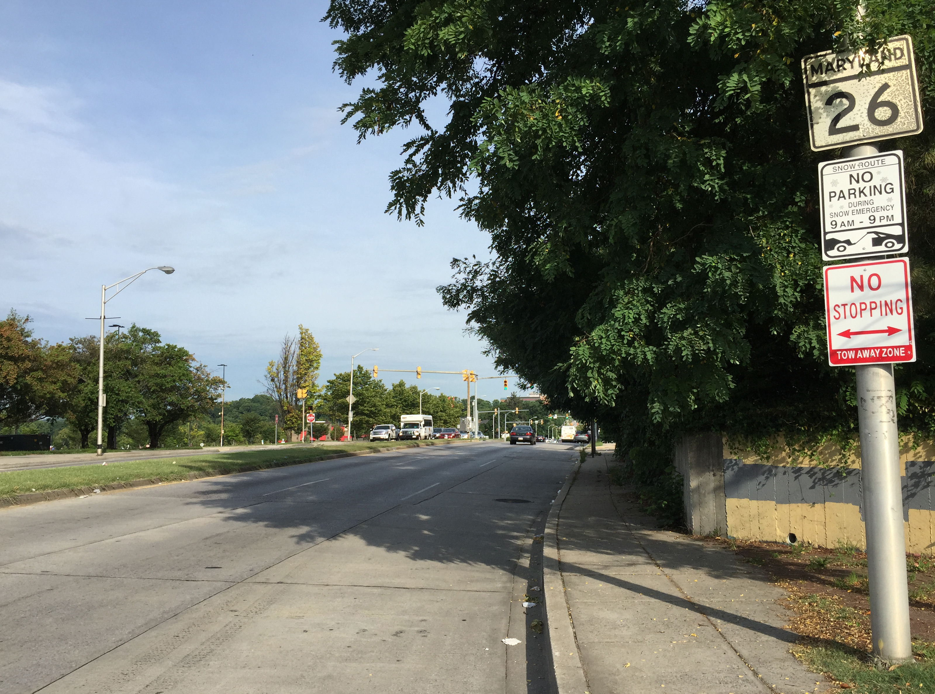 View west along Maryland State Route 26 (Liberty Heights Avenue) just west of Maryland State Route 140 (Reistertown Road) in Baltimore City, Maryland